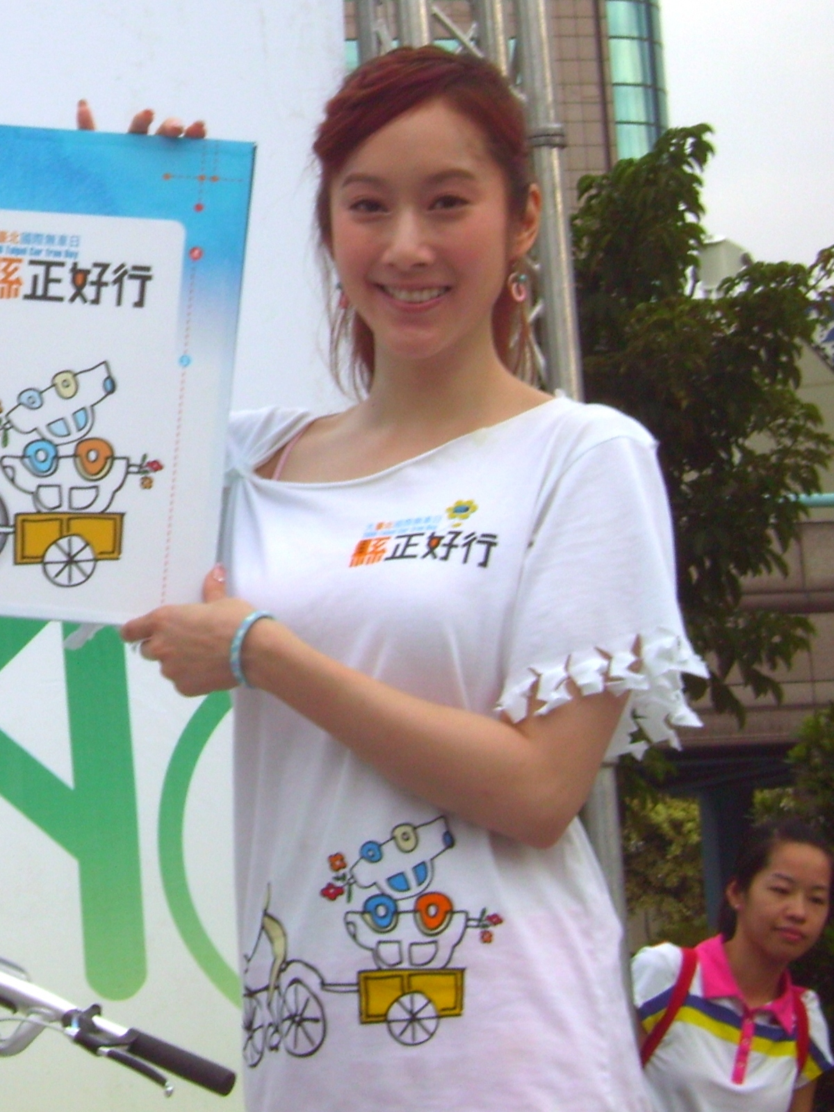 Evonne Hsu, a Taiwanese Entertainer, participated 2006 Taipei Car Free Day bicycle riding activity, organized by Taipei City Govvernment and Taipei County Government.